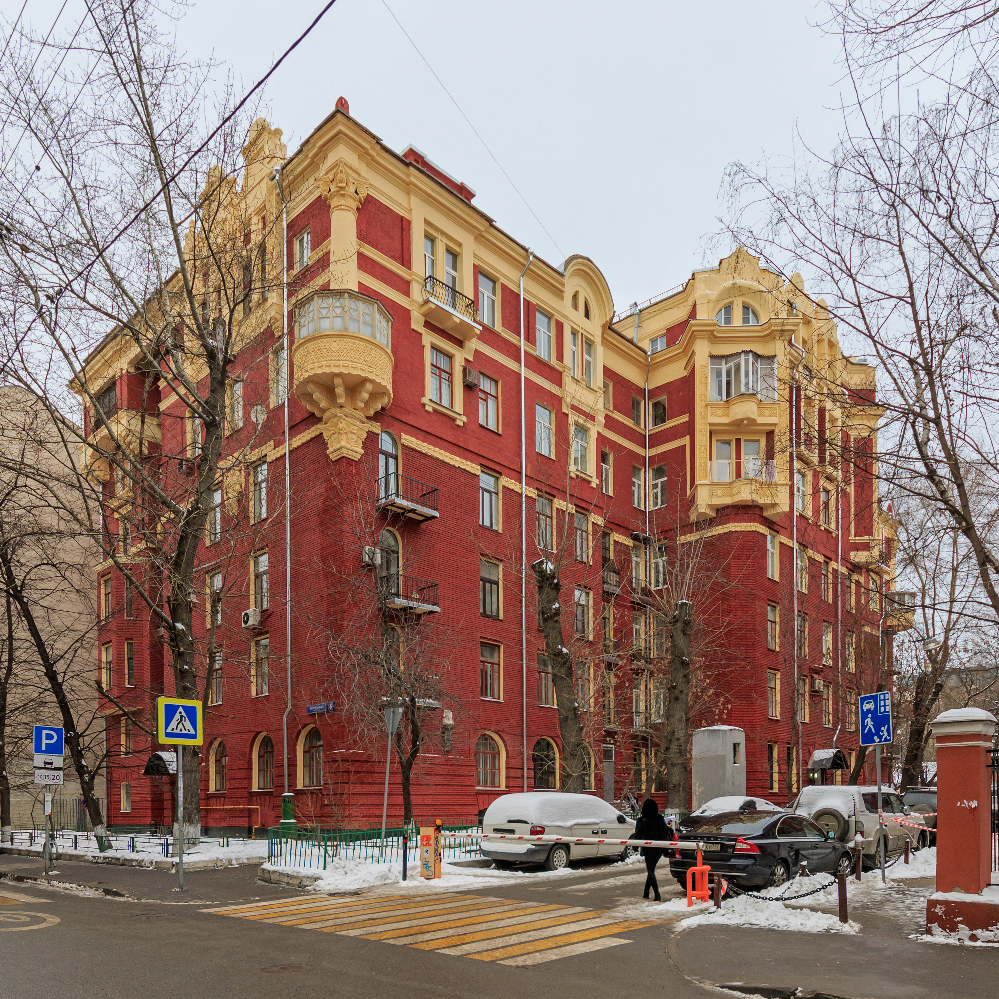 A postconstructivist-style residential building (Trekhprudny Lane 8) in Moscow, Russia